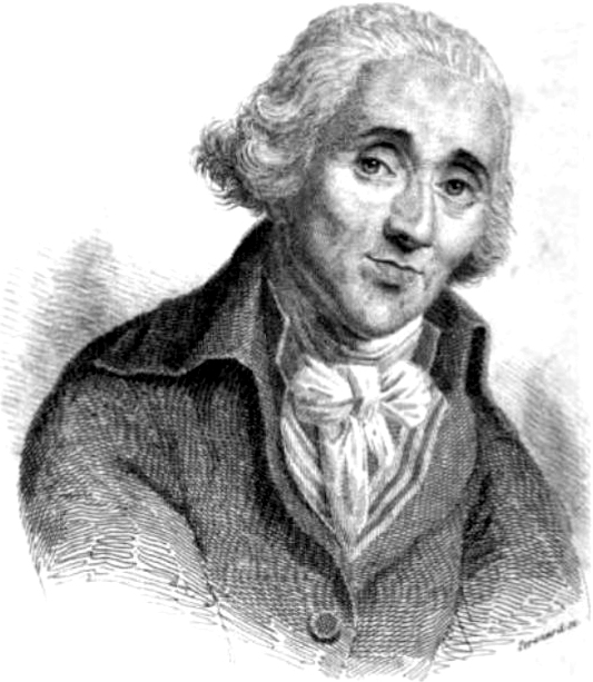 Jacques Mallet du Pan (1749 - 1800), Swiss-born French journalist.